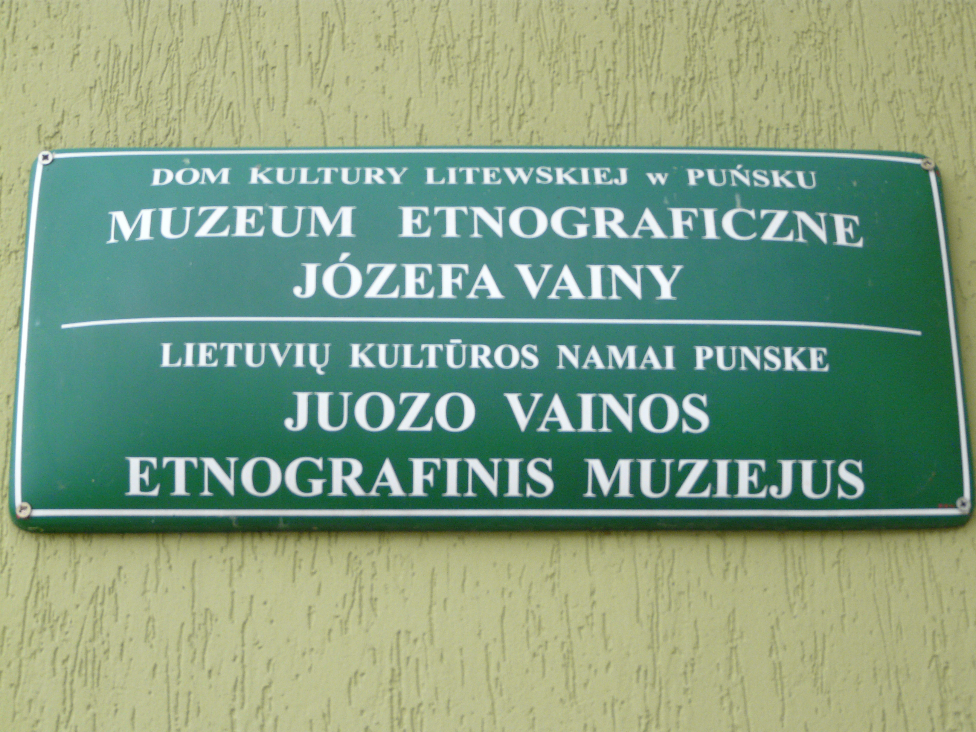 Puńsk. Bilingual Polish-Lithuania signs in Poland